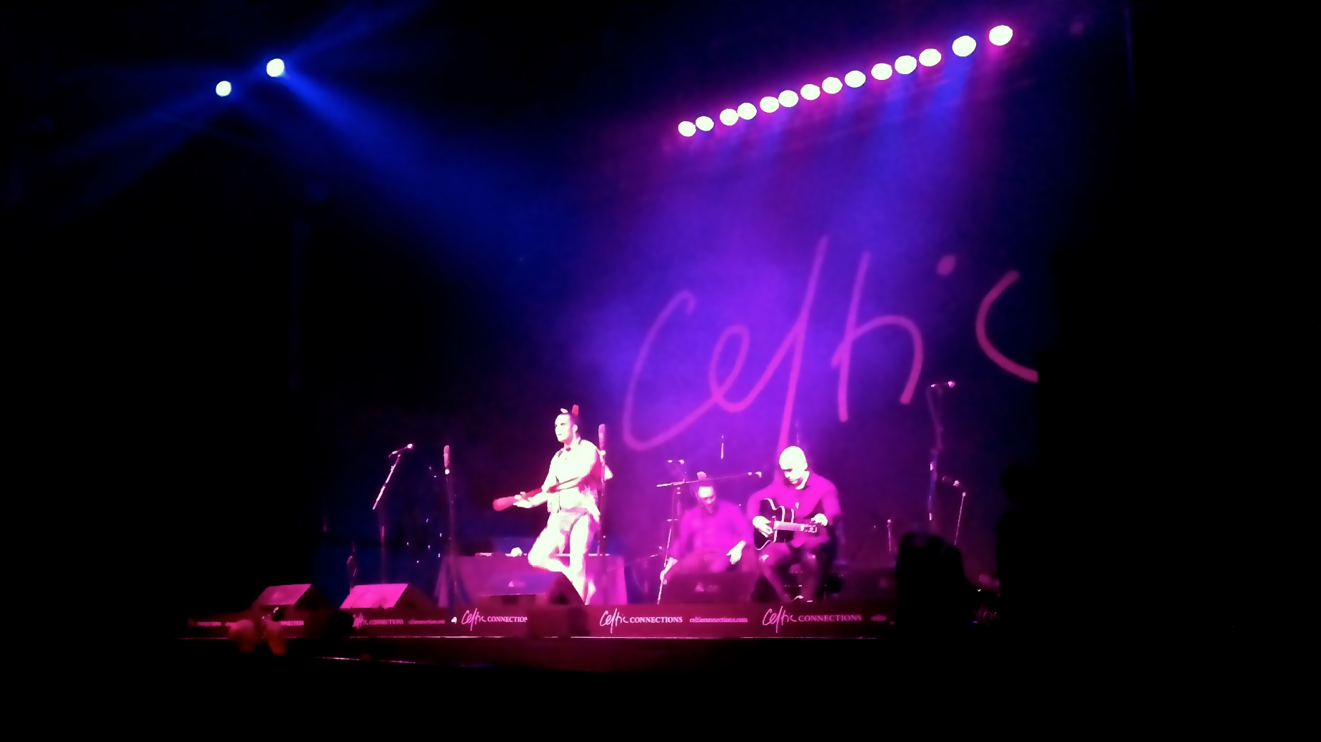 Waiora trio from New Zealand performing at Old Fruitmarket, Candleriggs, at the Celtic Connections festival in Glasgow, Scotland January 2015